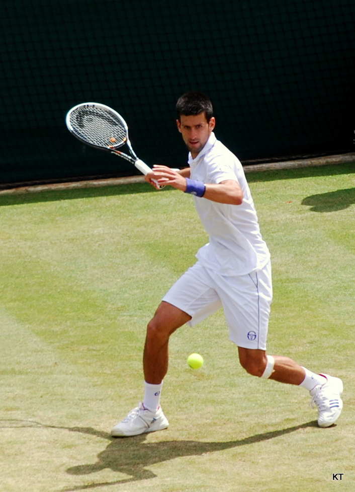 Novak Djokovic during his quarter-final against Bernard Tomic on Day 9 of Wimbledon 2011. Djokovic won 6-2 3-6 6-3 7-5.